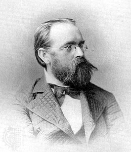 The picture of German musician Joseph Rheinberger